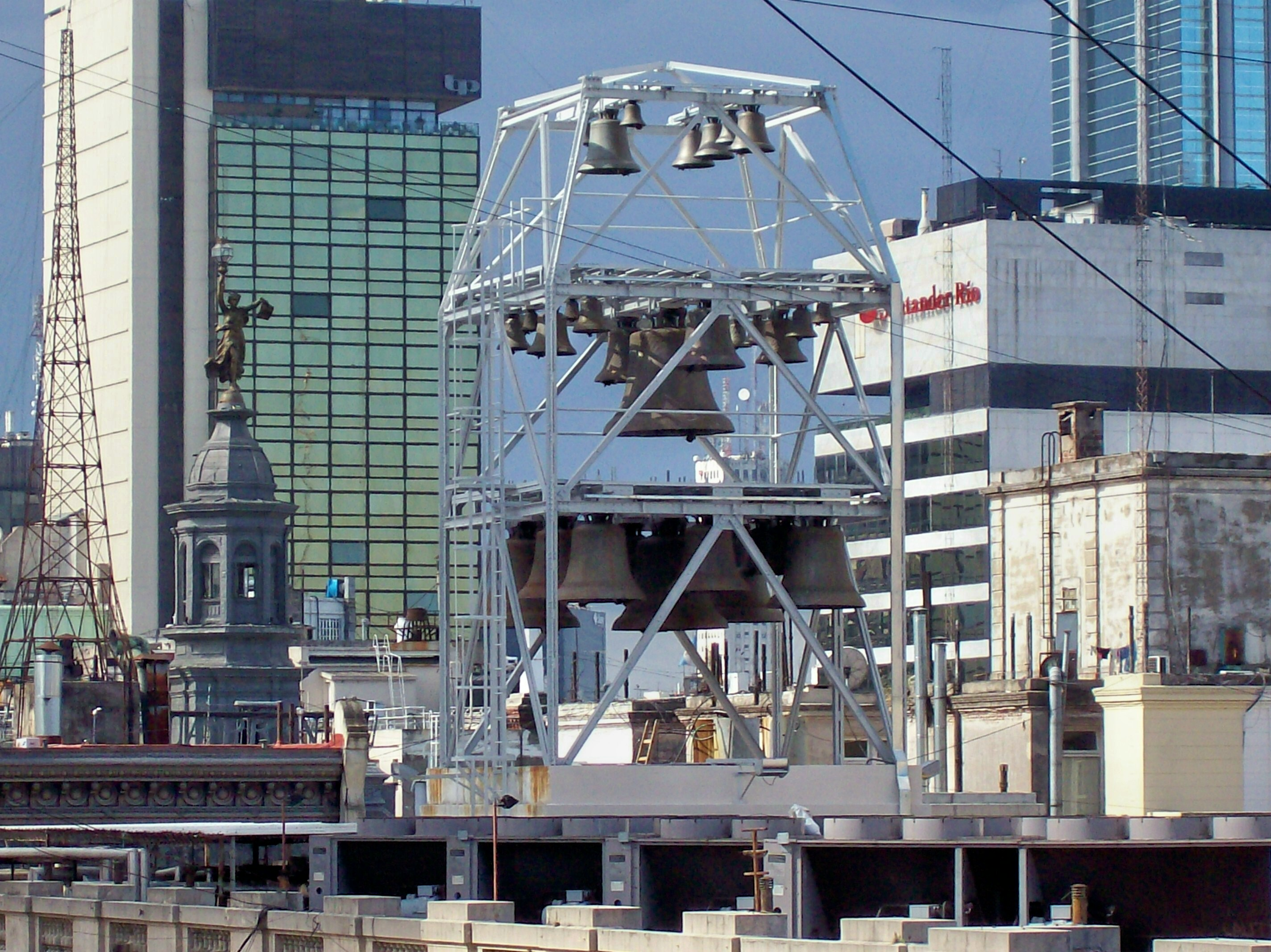 Legislative Palace of Bs. As. Bells. Barrio de Monserrat